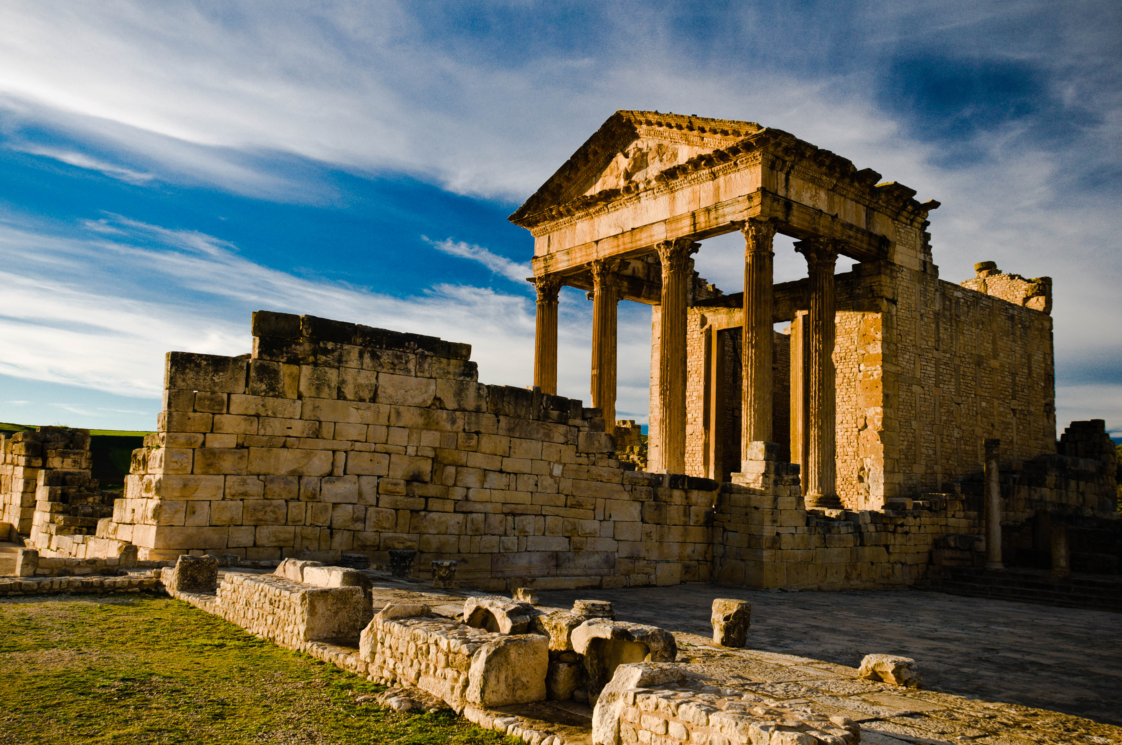 View of the Capitol of Dougga (Tunisia)